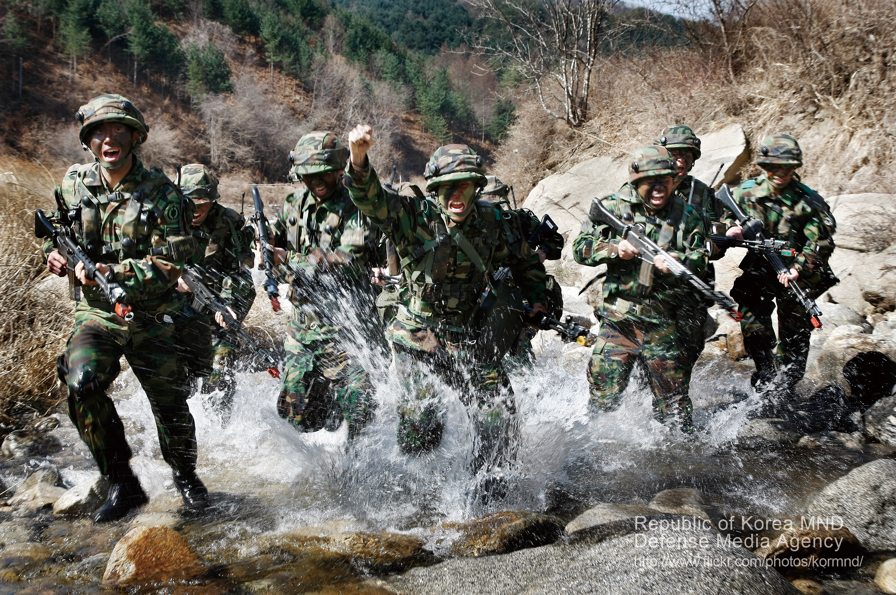 2010 국방화보 Rep. of Korea, Defense Photo Magazine 과학화전투훈련에서 소대장 지휘하에 소대원들이 적진으로 돌격하고 있다. A platoon led by their commander is charging for the enemy lines during an advanced and modernized combat training at KCTC.